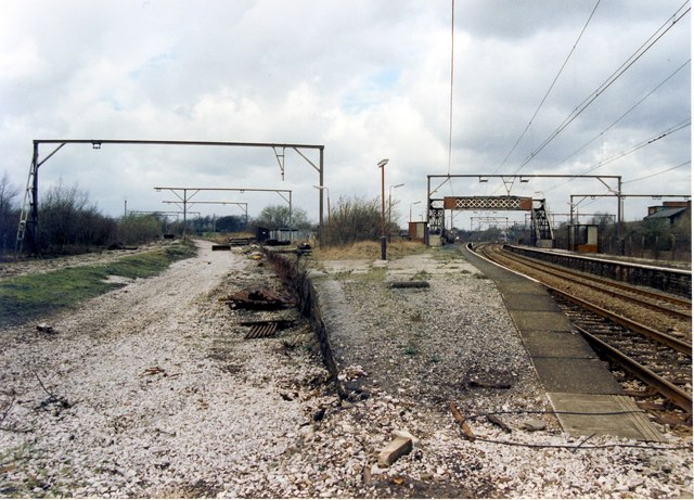 Godley East railway station Original description: Godley Junction At one time, the trackbed to the left was the main route for Yorkshire coal to Fiddlers Ferry electricity generating station via Woodhead. Godley Junction was the point at which electric traction gave way to diesel. Changes in coal flows and the expense of traction changes at both ends of the journey led inexorably to the Woodhead route's closure in 1981. Godley Junction had no rationale as a passenger station and was replaced by a new station simply named Godley, but pending formal closure proceedings was renamed Godley East and served by a handful of trains on weekdays to fulfil legal requirements.